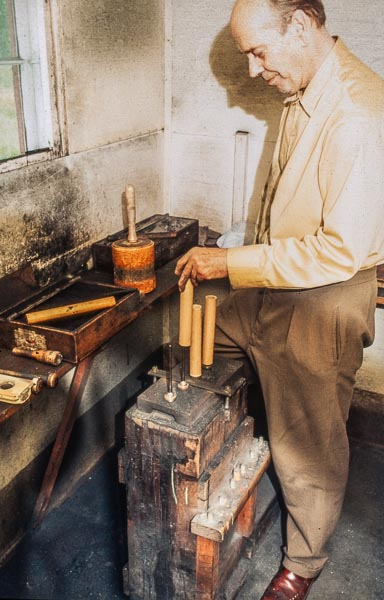 Cecil ilaboratoriet